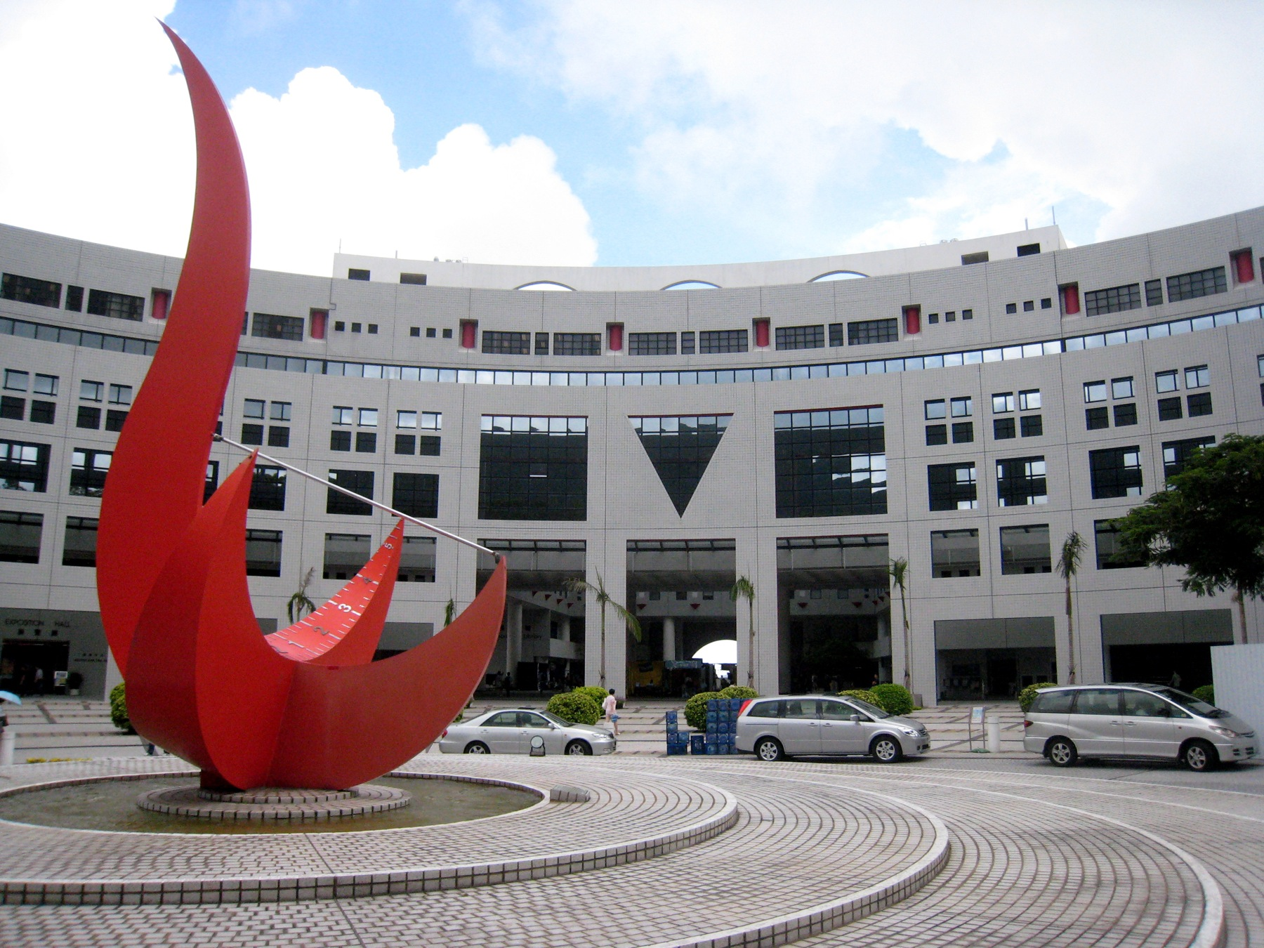 Hong Kong University of Science & Technology